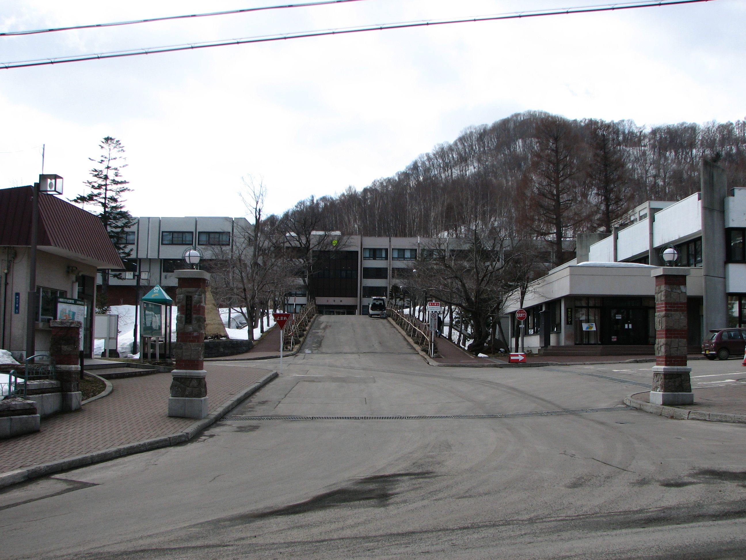 Otaru University of Commerce in Otaru, Hokkaido, Japan. Photograph taken by the original uploader in March 2007.